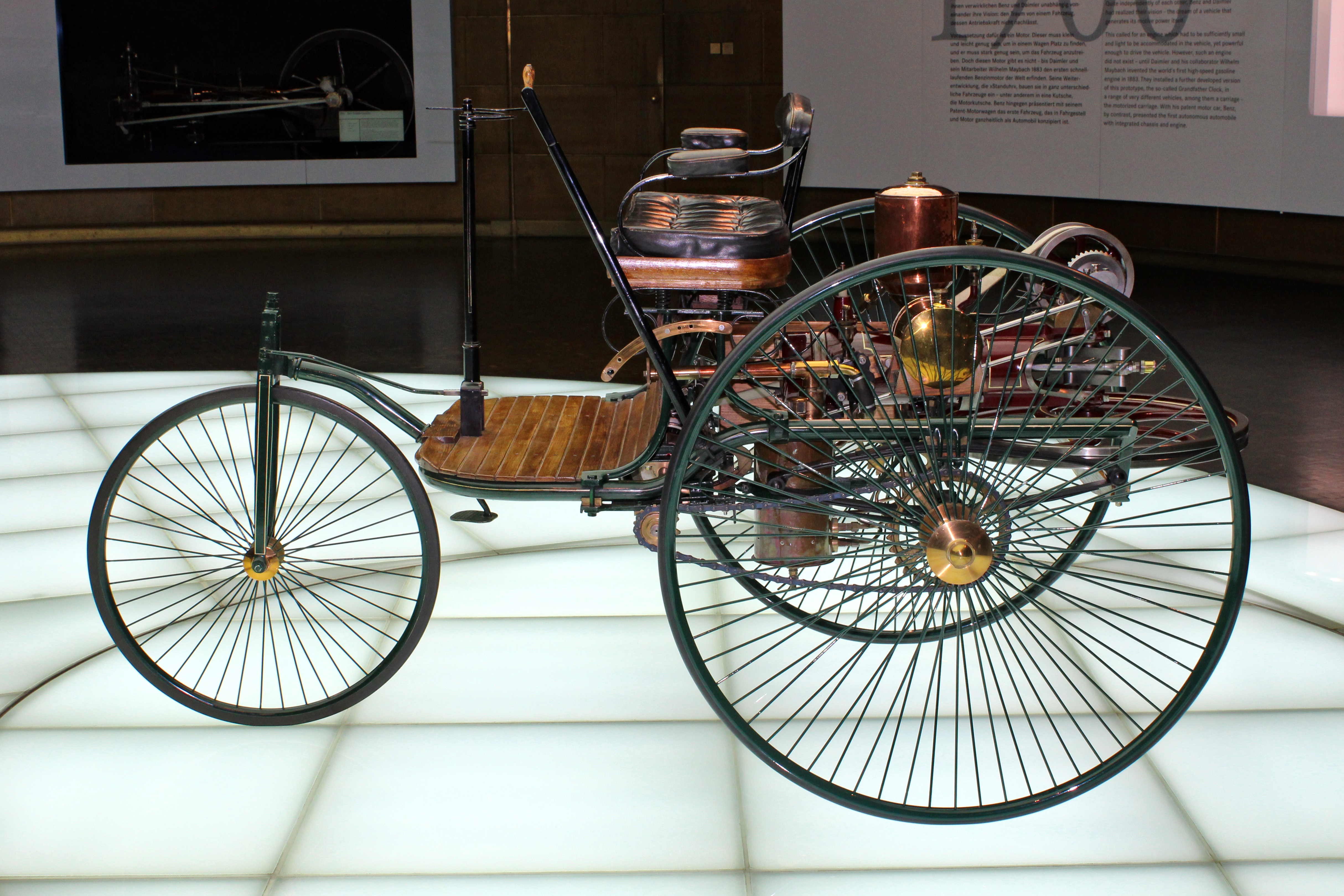 Benz Patent Motorwagen (replica) at Mercedes-Benz-Museum 2018